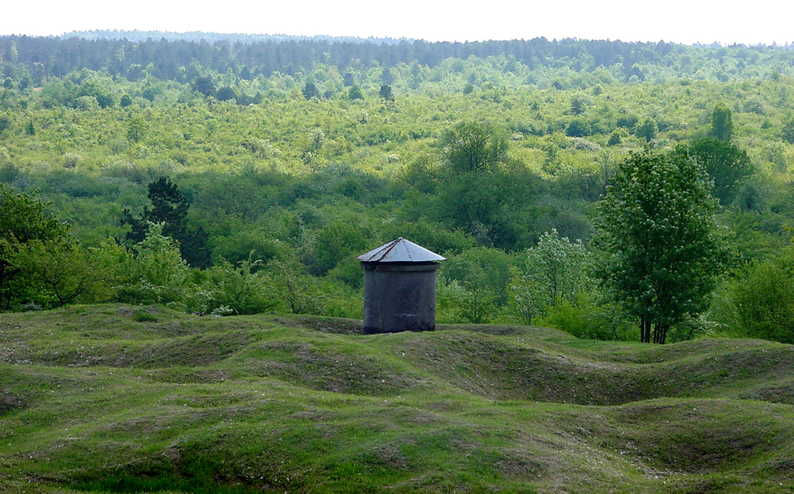 Landscape of Verdun Forest after reforestation following World War I (Verdun, Meuse, France).